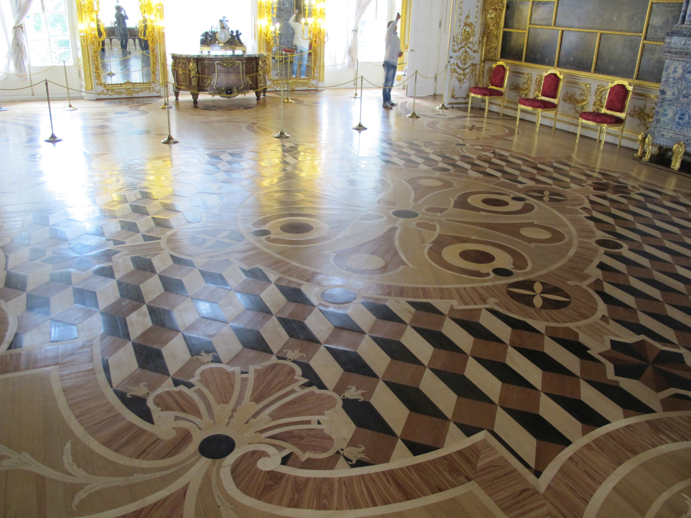 Picture hall of Catherine Palace